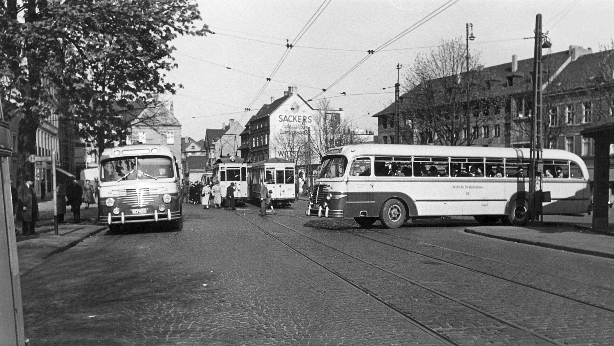 Historical buses in Bottrop, Germany. Vestische Straßenbahnen GmbH operator.